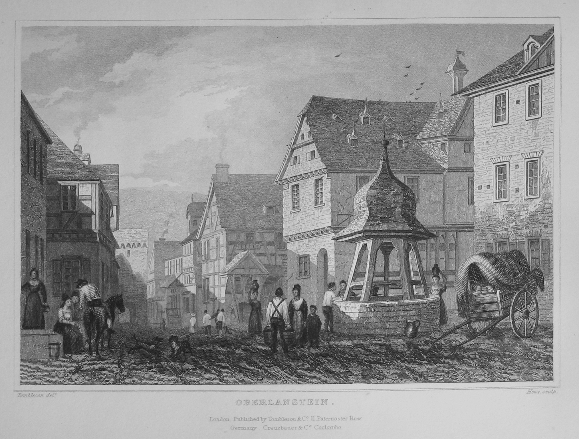 Steel engraving from "Views of the Rhine" by William Tombleson (around 1840): Oberlanstein, street scene